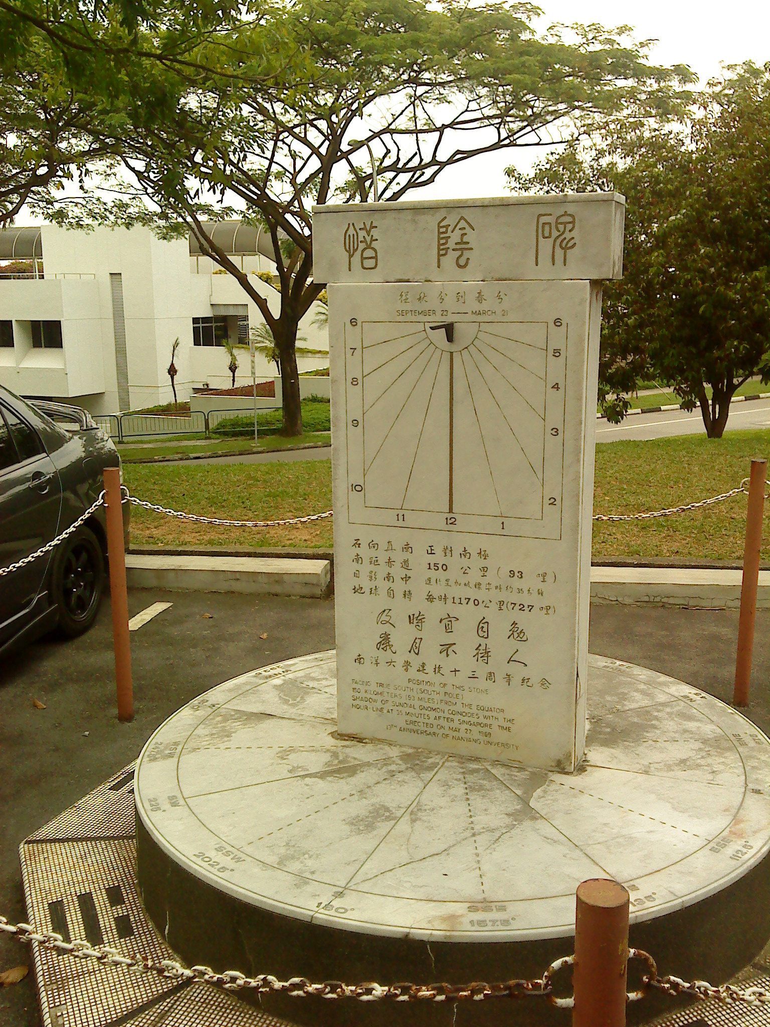 A monument at Nanyang Technological University, carrying the name of the defunct Nanyang University.